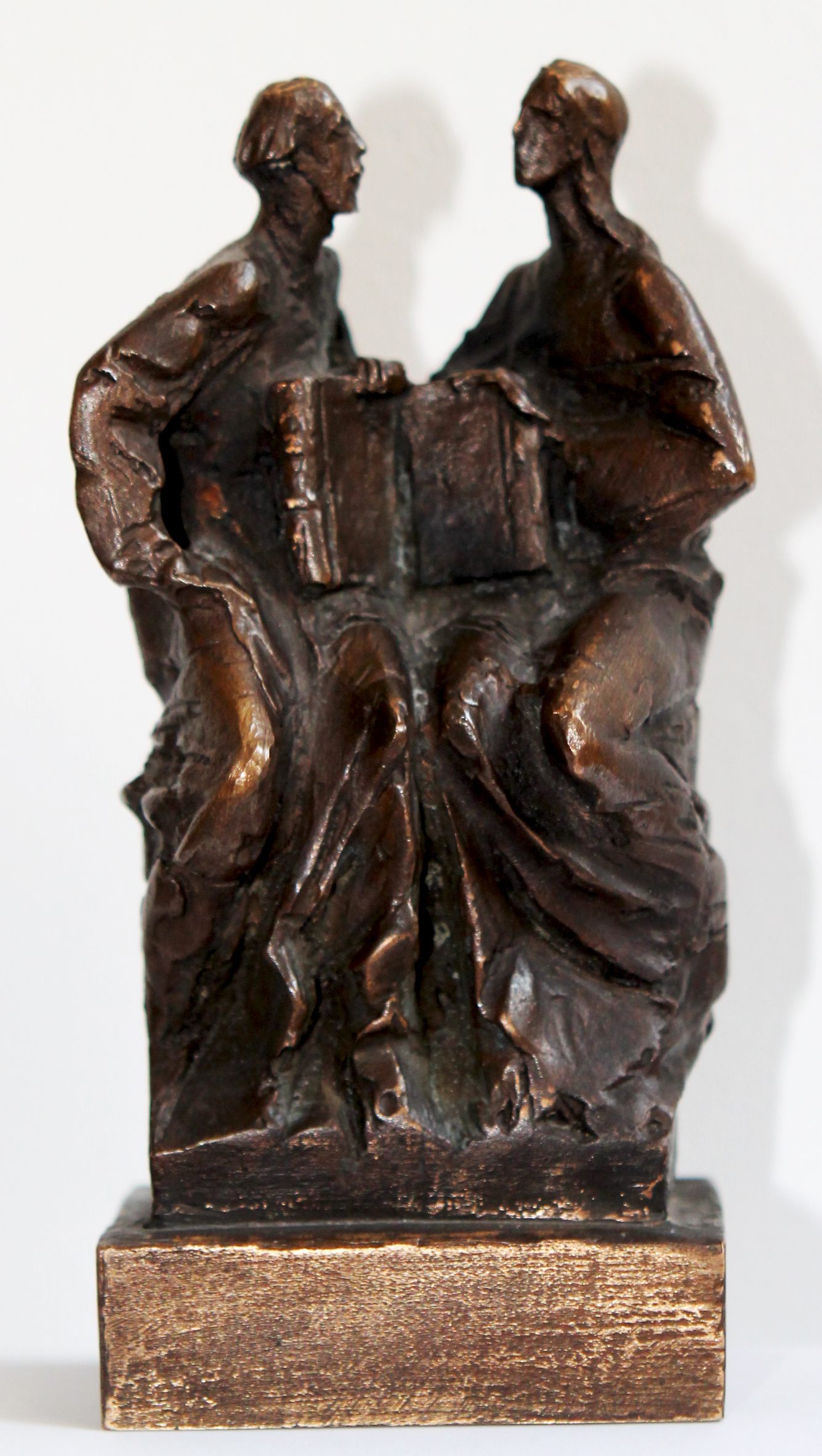 Efim Etkind Prize Bronze Recto